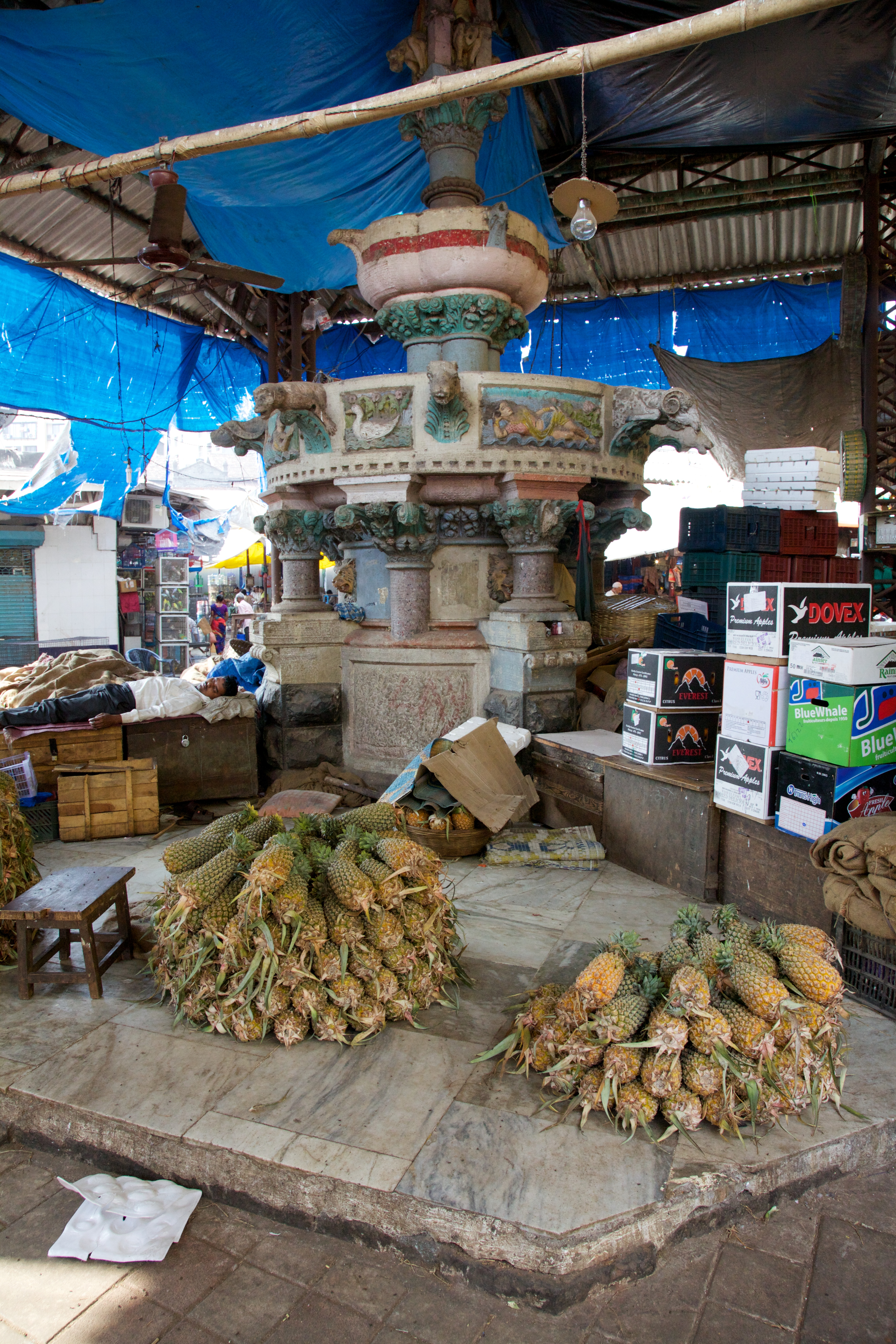 Note the spectacular, but non-functional, Victorian-era fountain in Crawford Market in Mumbai.